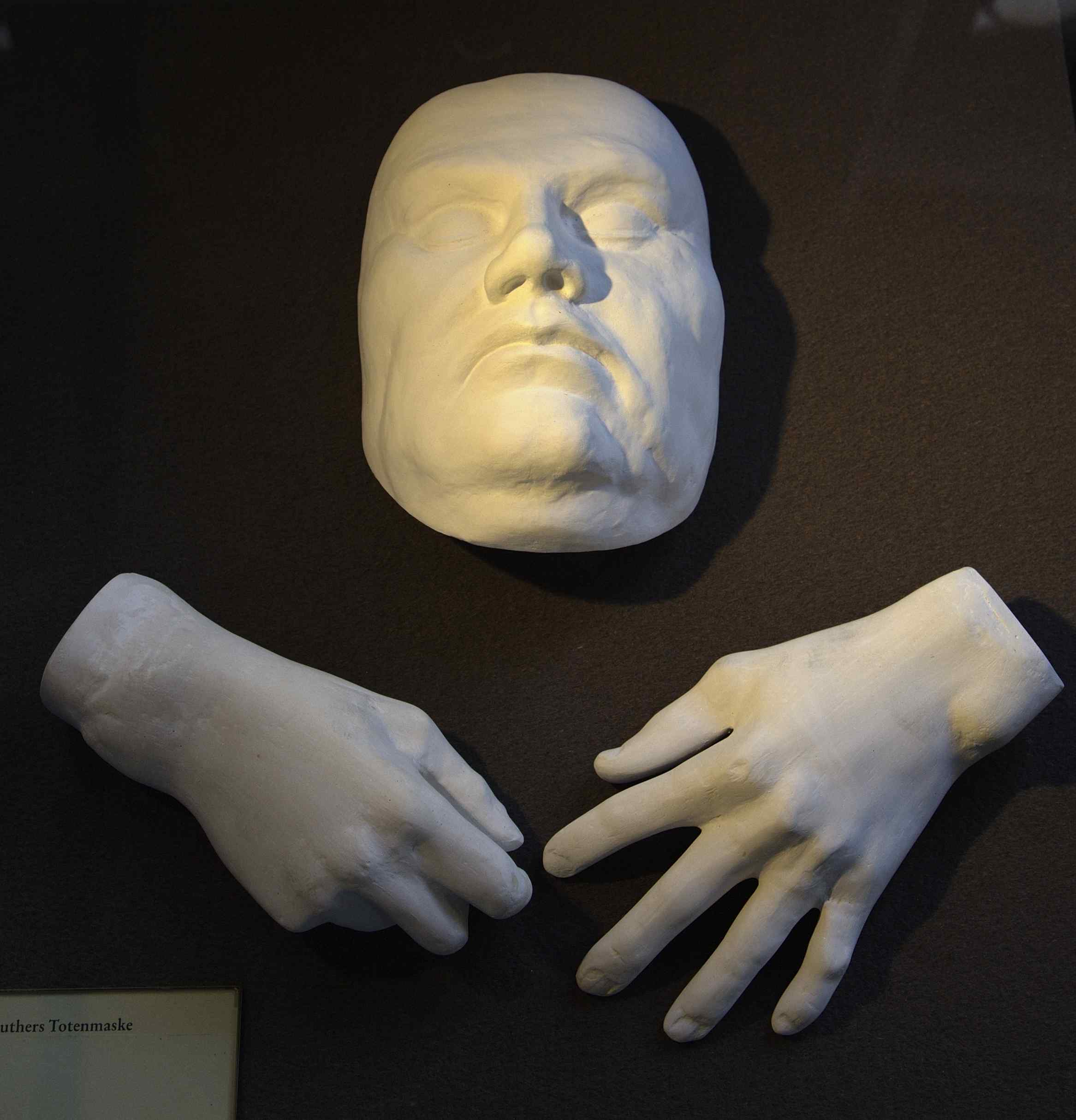 Cast of Luther's face and hands at his death. Copy in Luther Death House. Eisenach, Germany.